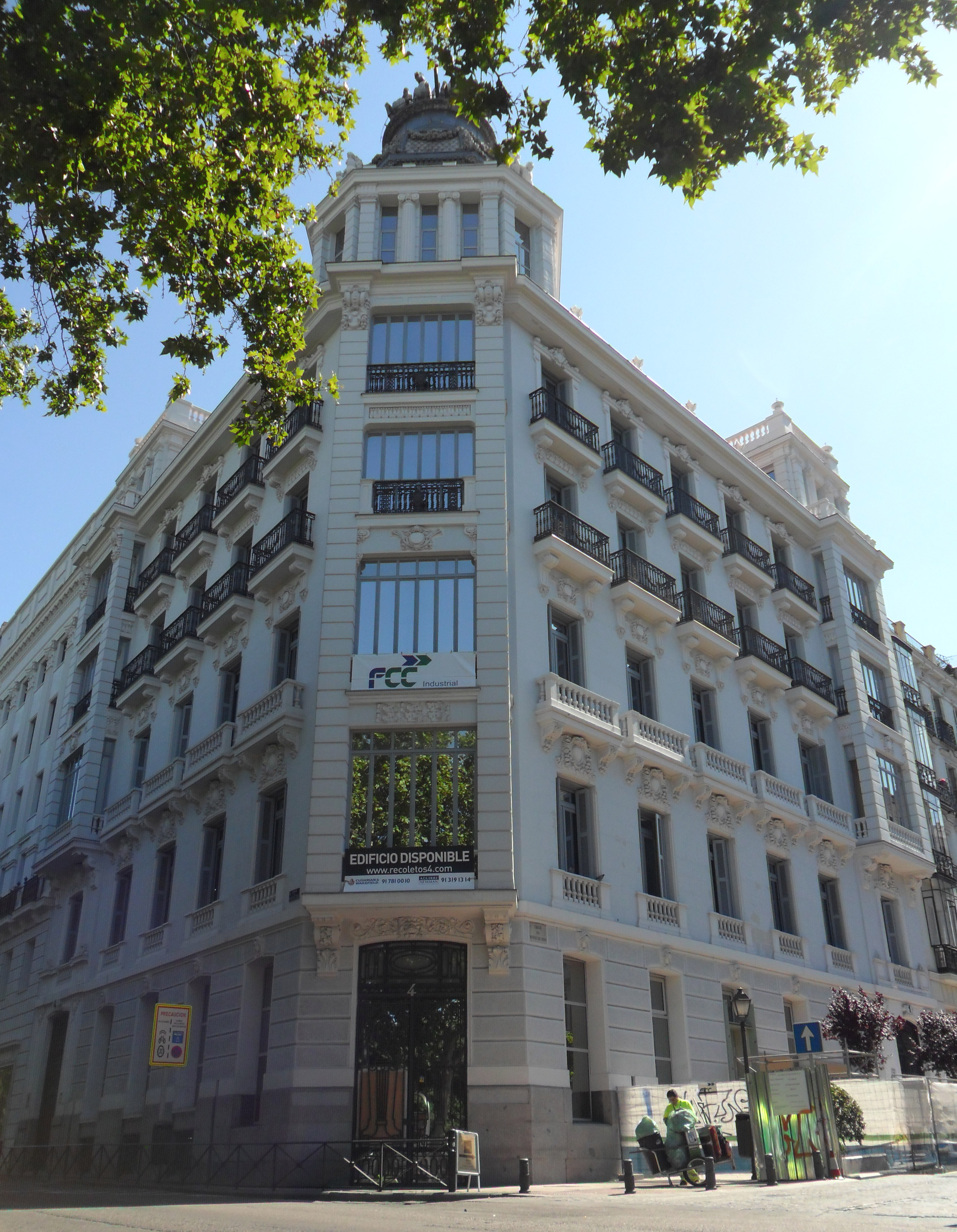 Façade of Seguros La Aurora building (former mansion of Ramón Pla Monje) at 4th Paseo de Recoletos (a boulevard) in Madrid (Spain). It was designed by Agustín Ortiz de Villajos and completed in 1880.